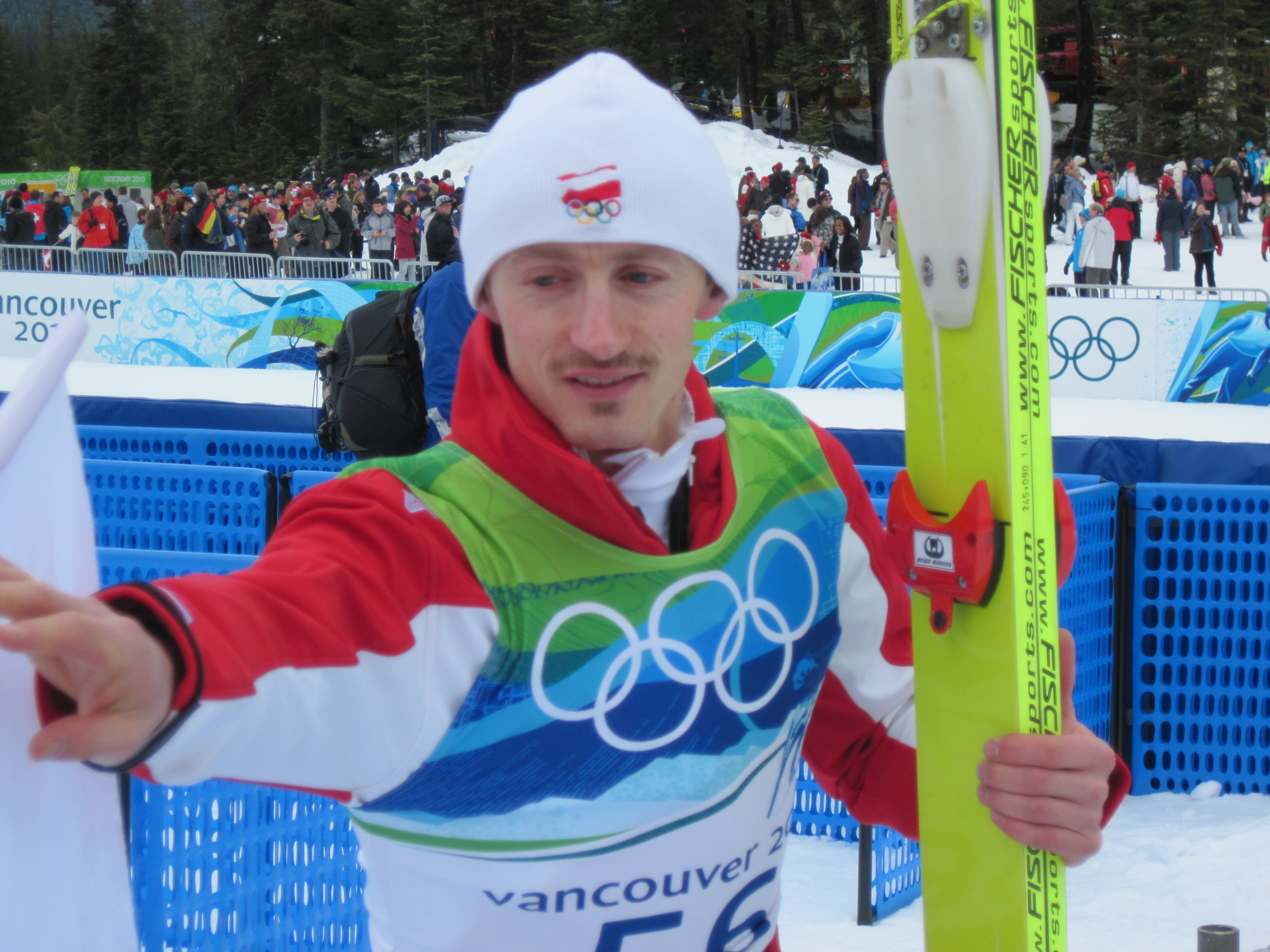 Adam Małysz : winner of a silver medal at the Winter Olympics 2010